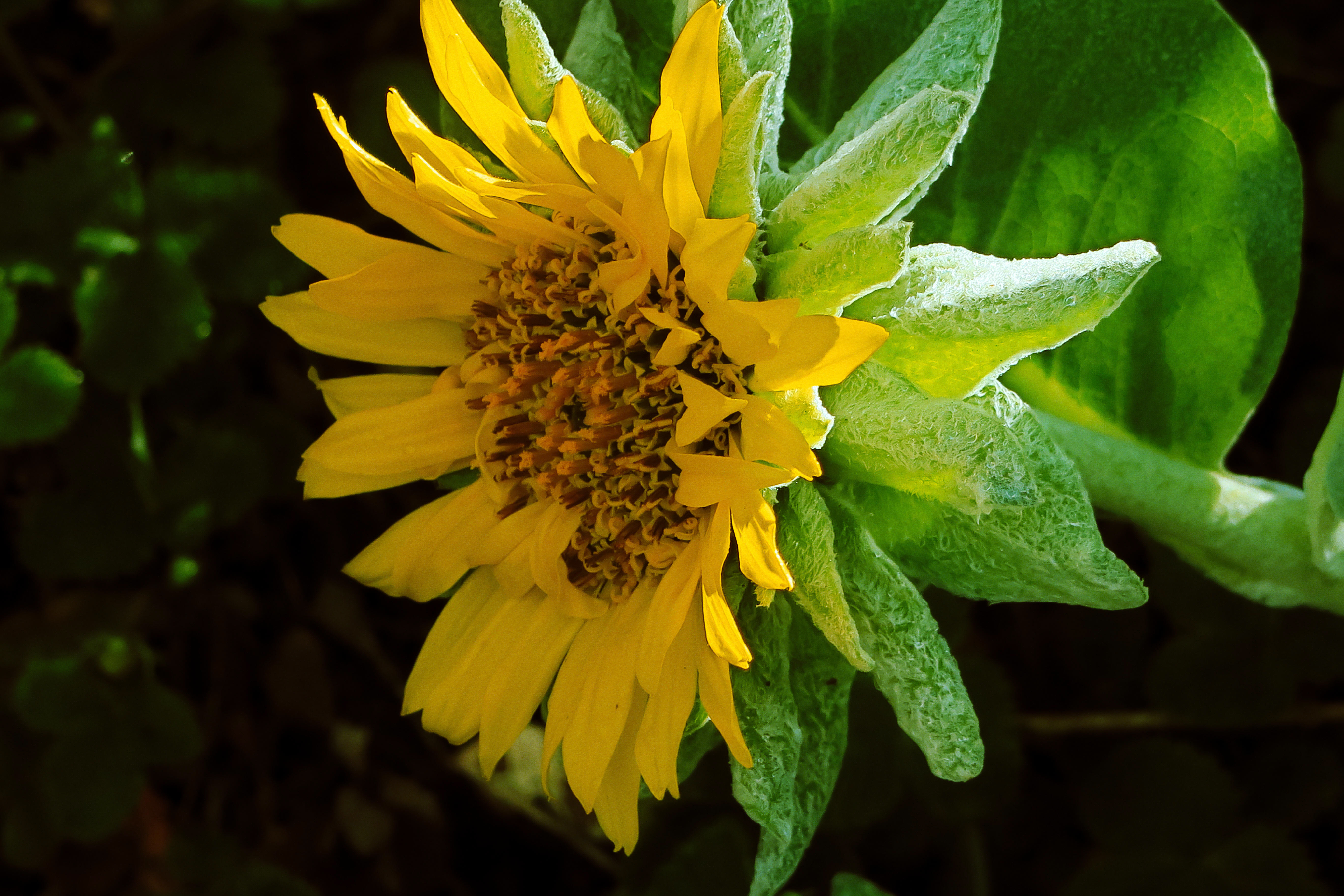 Wyethia helenioides—gray mule ears. Grows in the inner North Coast Ranges and Sierra Foothills north of about Yosemite. The plant is, if a Google search is any indication, widely used in homeopathy. It's a tough drought-resistant plant that should add color to gardens away from the immediate coast. Photographed at Regional Parks Botanic Garden located in Tilden Regional Park near Berkeley, CA.